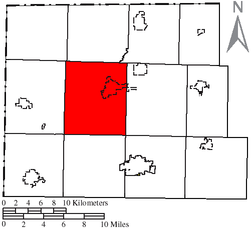 Made by the US Census and modified by myself